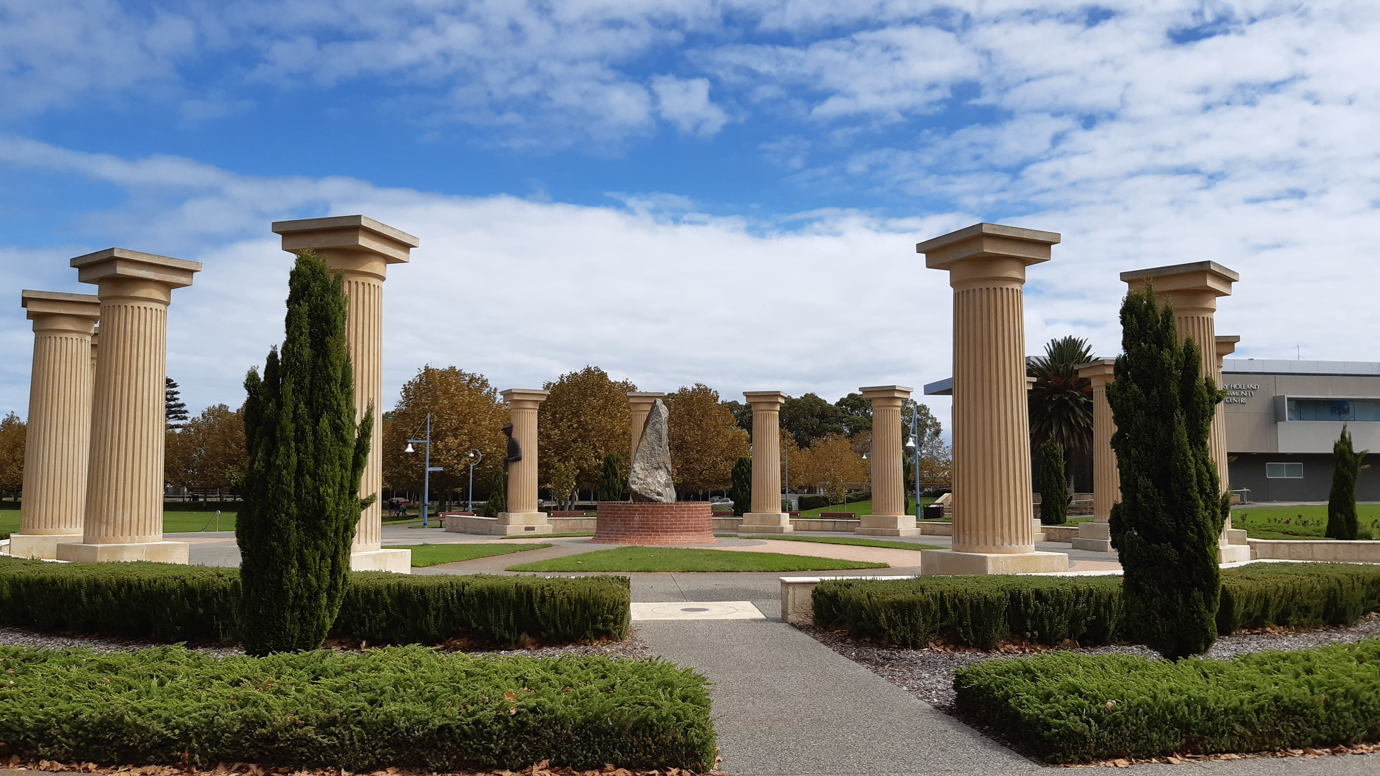 Rockingham War Memorial, Western Australia, view from the north-west.